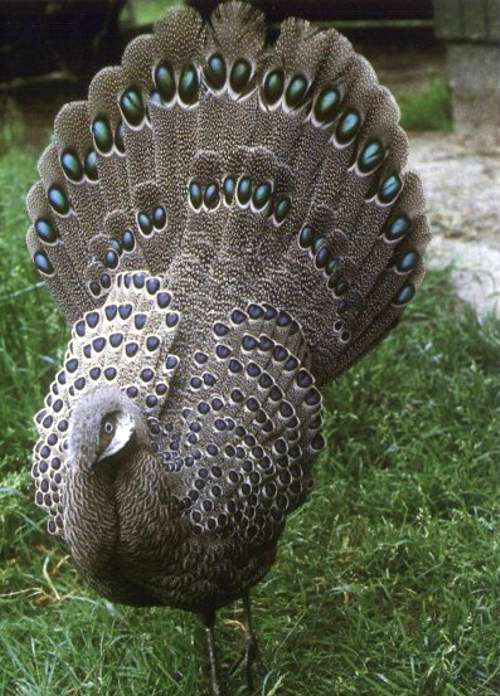 Male Grey Peacock-pheasant